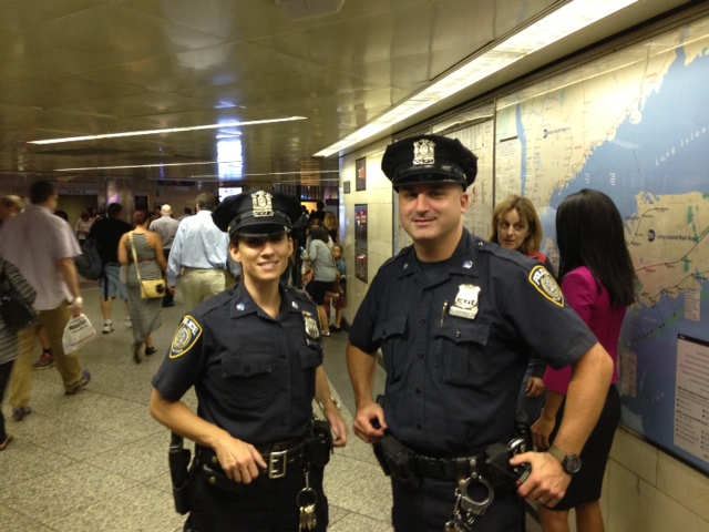 On Wednesday, August 7, 2013, MTA Police officers at Penn Station helped deliver Oscar Aguirre, 6 lbs, 12 oz. Officers Melissa Defrancesco and Joe Cona, both involved, are pictured here. Photo: MTA Police Department / Aaron Donovan